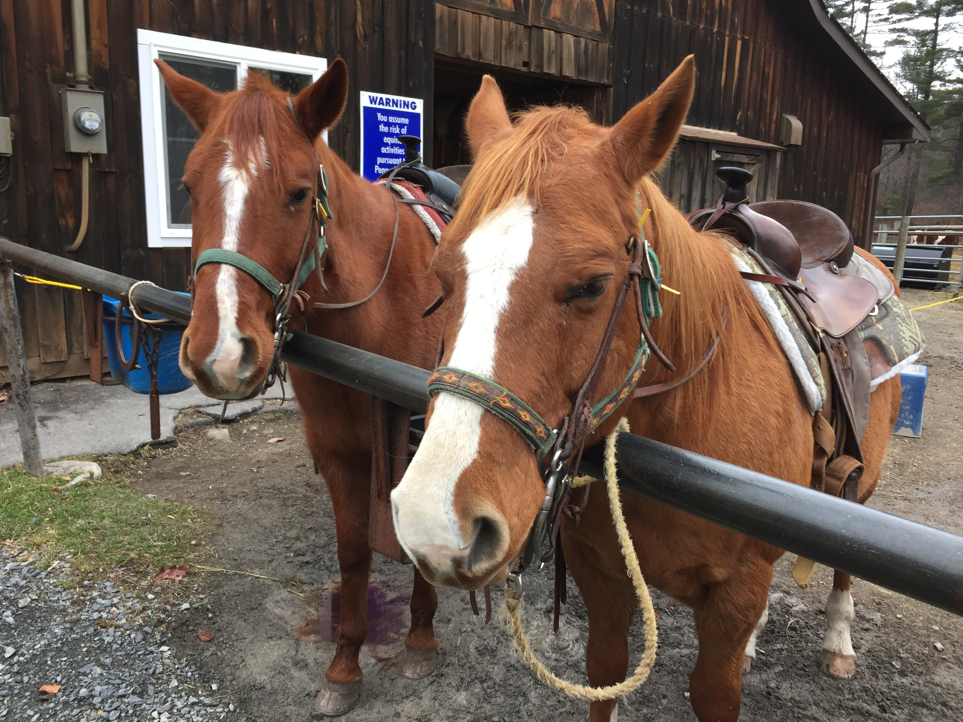 Two horses from Mountain Creek Riding Stables